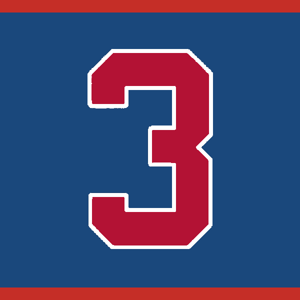 Illustration of Dale Murphy's Retired Braves Number